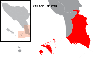 Map showing Aceh Singkil county in Aceh province, Sumatra Island, Indonesia